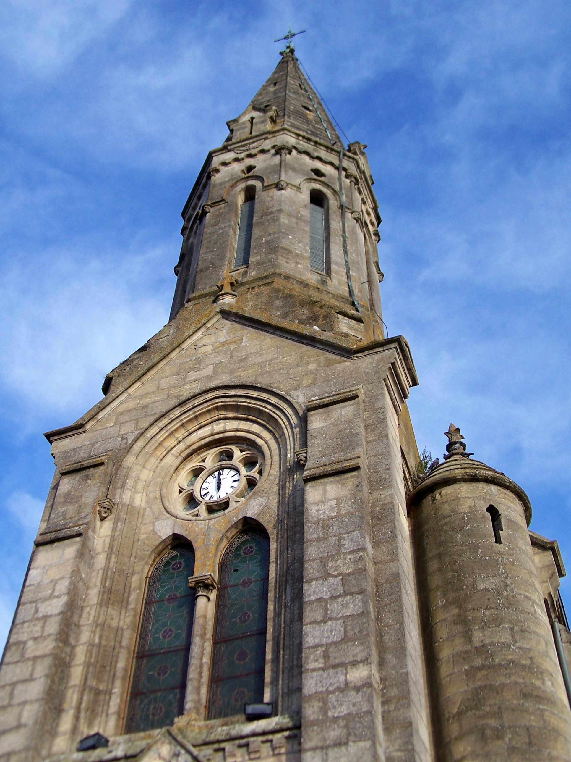 Saint Martin church of Captieux (Gironde, France)